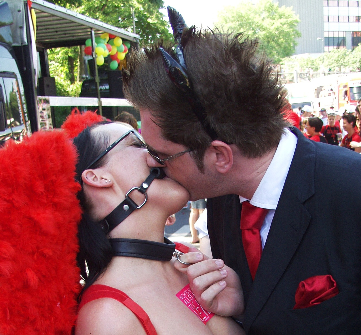 Members of the Christopher Street Day demonstration - ColognePride 2006